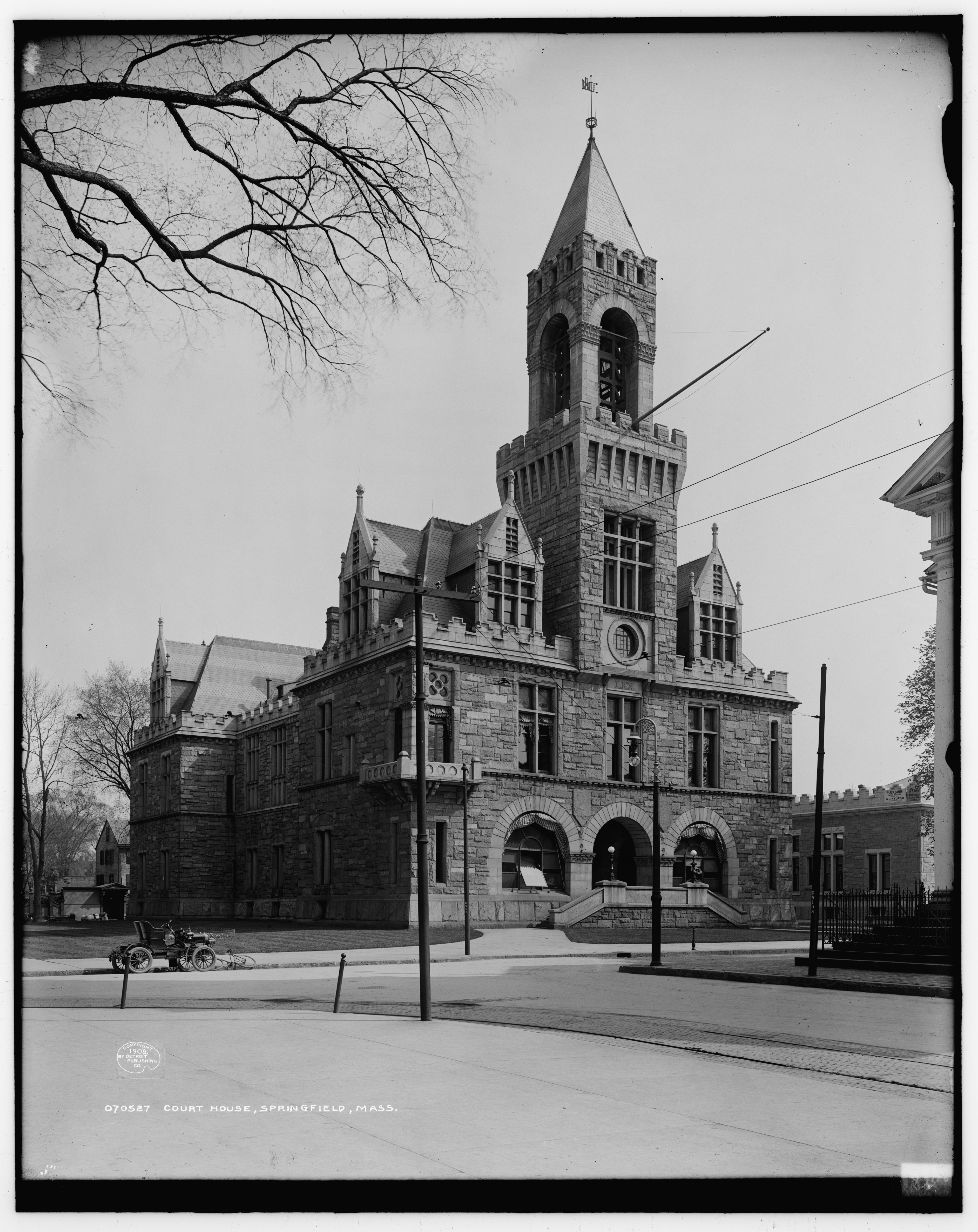 Hampden County Courthouse, Springfield Massachusetts, around 1908